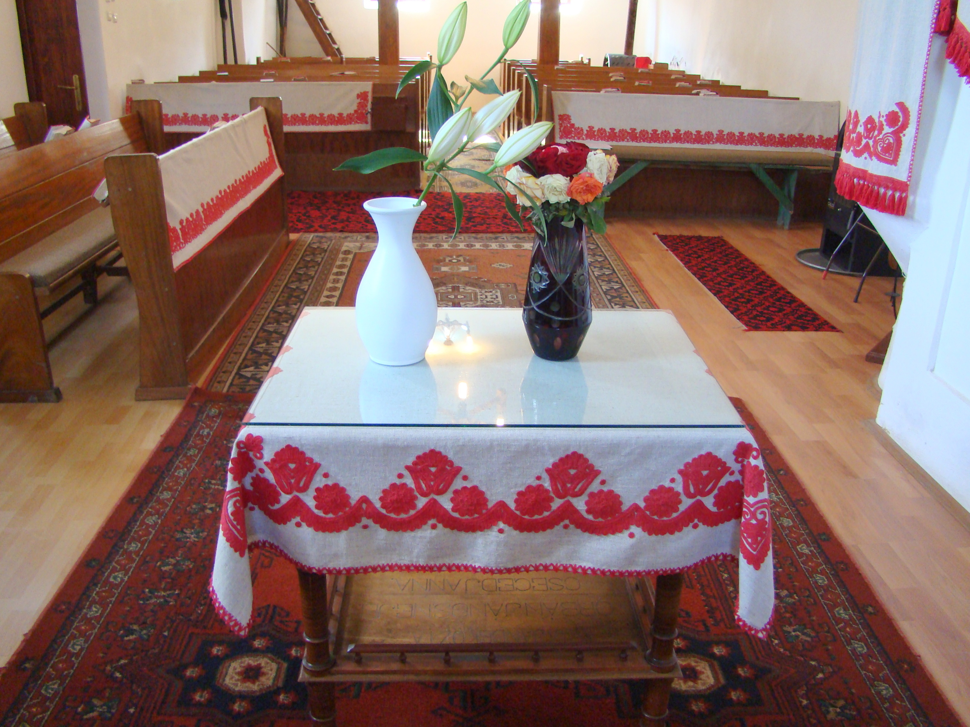 Reformed church in Chinari, Mureş county, Romania